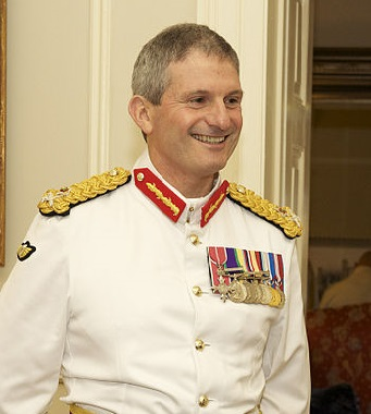 The Commandant of the U.S. Marine Corps, Gen. James F. Amos, right, speaks with the Evening Parade guest of honor, Commandant General of the British Royal Marines Maj. Gen. Martin Smith, during the parade reception at the Home of the Commandants in Washington, D.C., July 18, 2014. Maj. Gen. Smith is on his first trip to the United States since assuming the role of commandant of the British Royal Marines. (U.S. Marine Corps photo by Sgt. Mallory Vanderschans/Released)